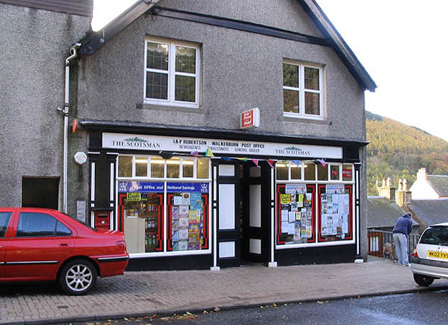 Walkerburn Post Office On the main A72 road through the village.